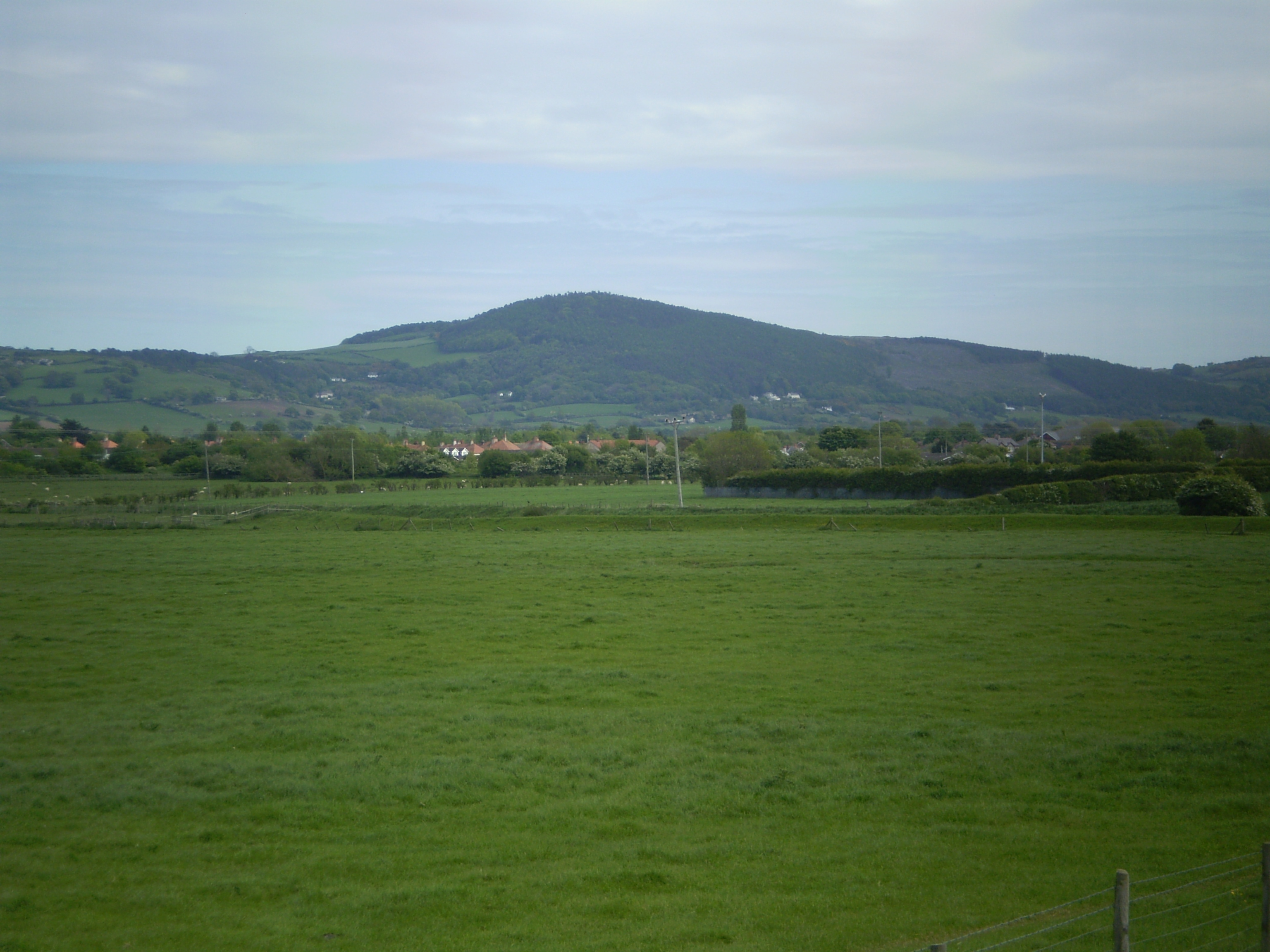 mynydd y cwm hill